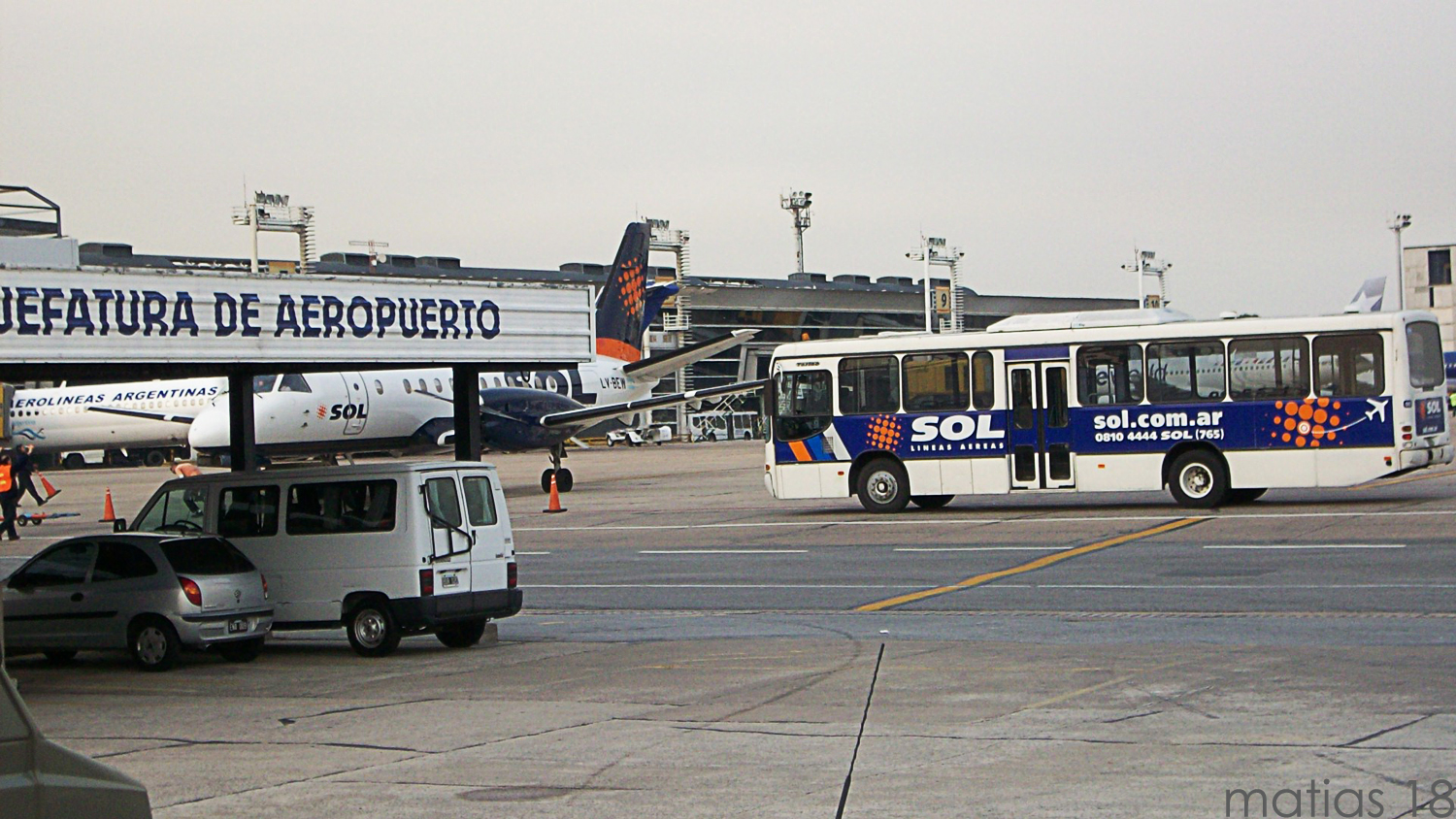 Sol Líneas Aéreas, ground pax service in Argentina.